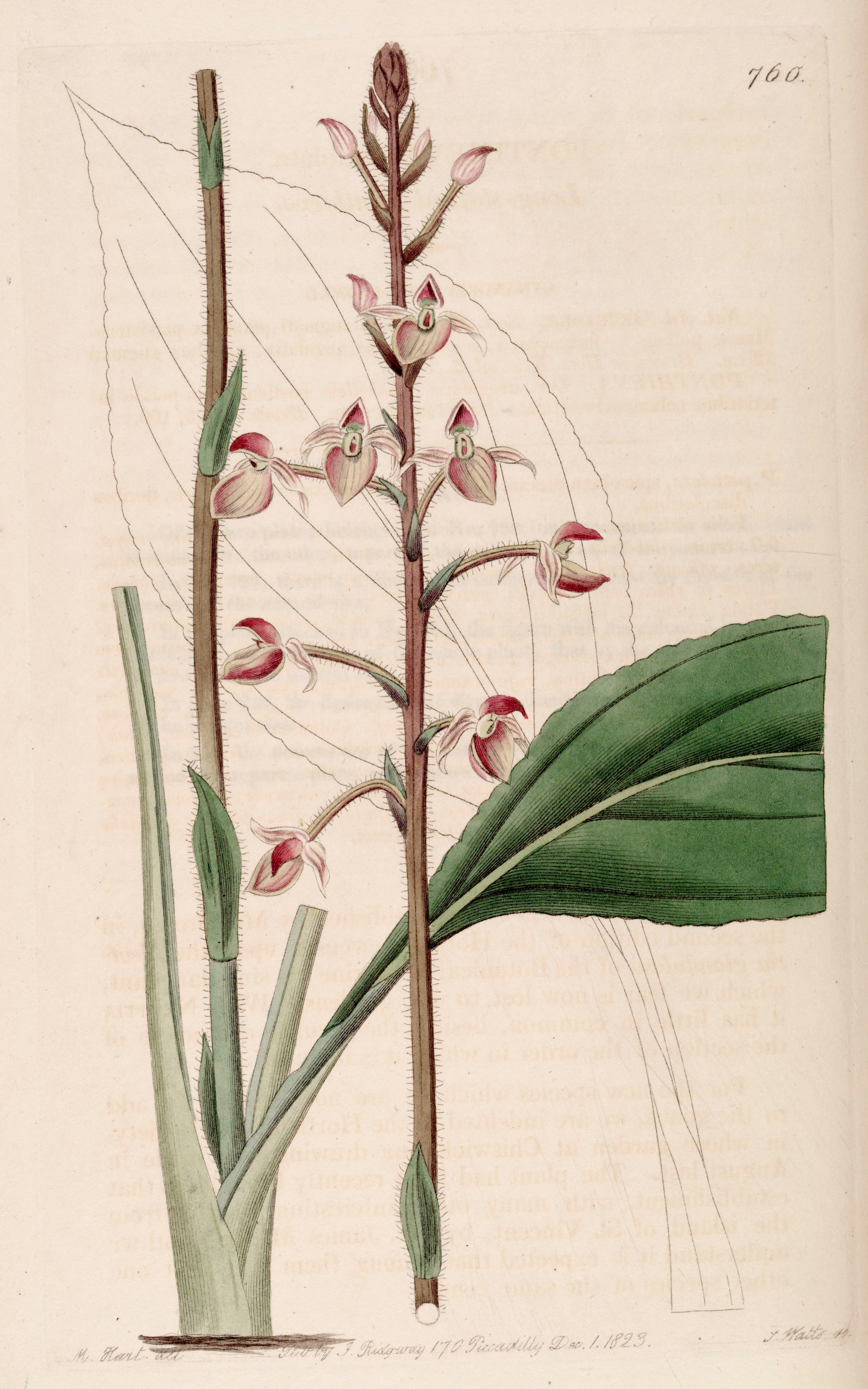 Illustration of Ponthieva petiolata